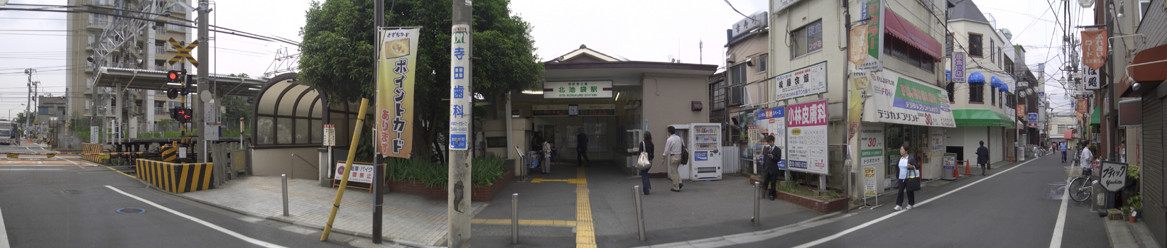 Panorama photograph of the entrance to Kita-Ikebukuro Station showing the adjacent level crossing